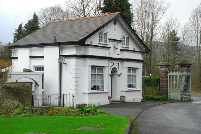 Maindiff Court Hospital Southern entrance Lodge to Maindiff Court Hospital. During the war it was a military hospital.Rudolf Hess was brought to the hospital on the last day of June 1942, following his capture in Scotland in May 1941.